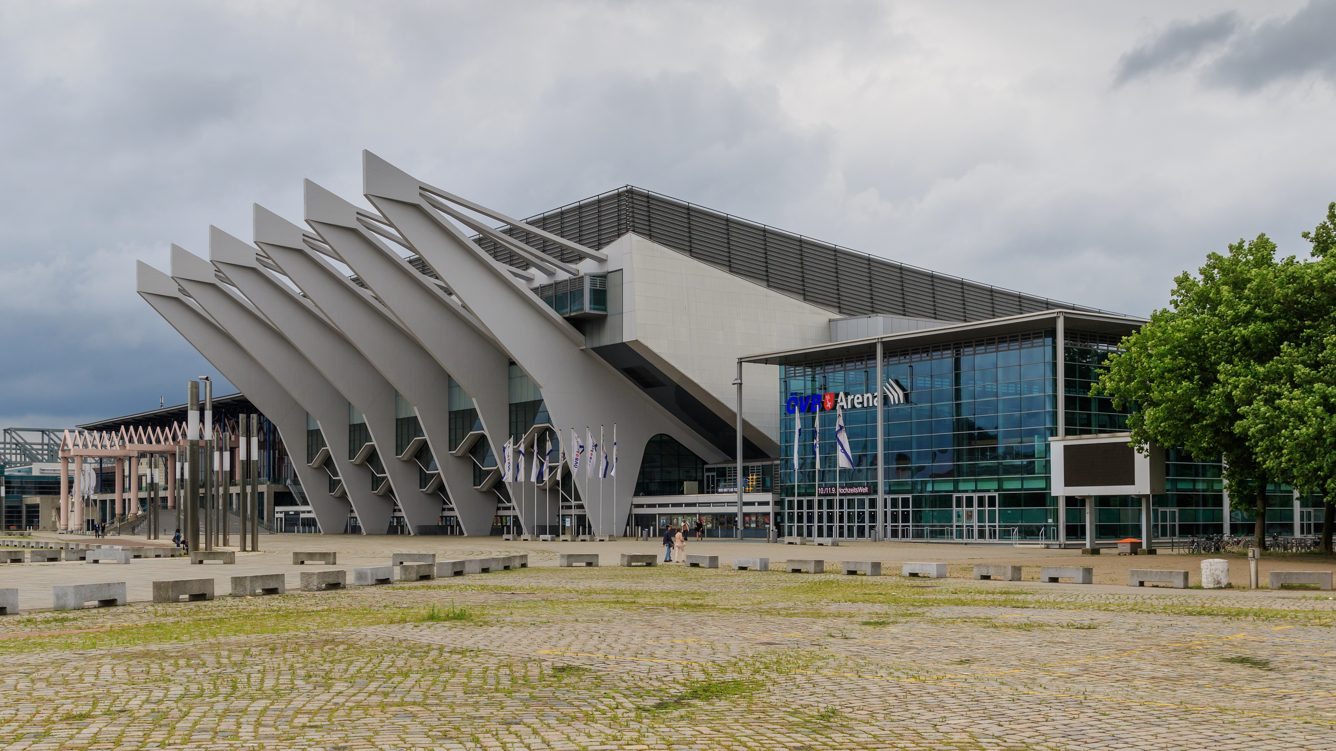 ÖVB Arena in Bremen, Germany